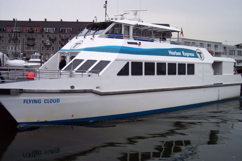 Flying Cloud at the north side of Long Wharf in April 2004